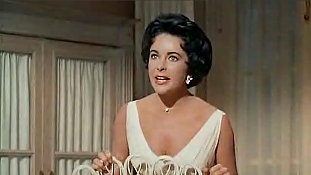 Screenshot of Elizabeth Taylor from the trailer for the film Cat on a Hot Tin Roof (film)